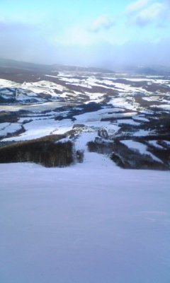 kazawa Snow erea